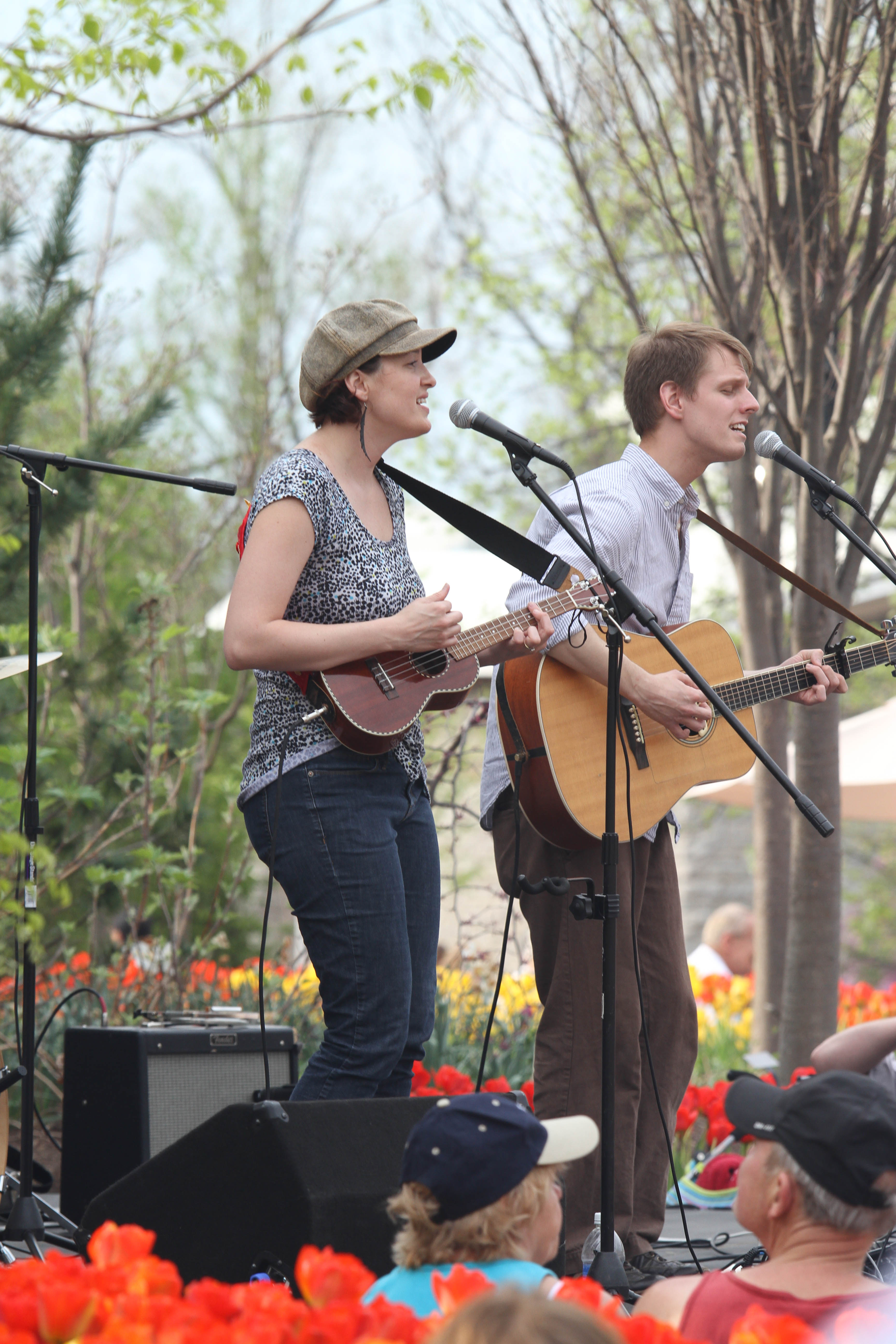 Local folk band "Shiny And The Spoon" perform at the Cincinnati Zoo. This photo was taken on April 18, 2013 using a Canon EOS 7D.